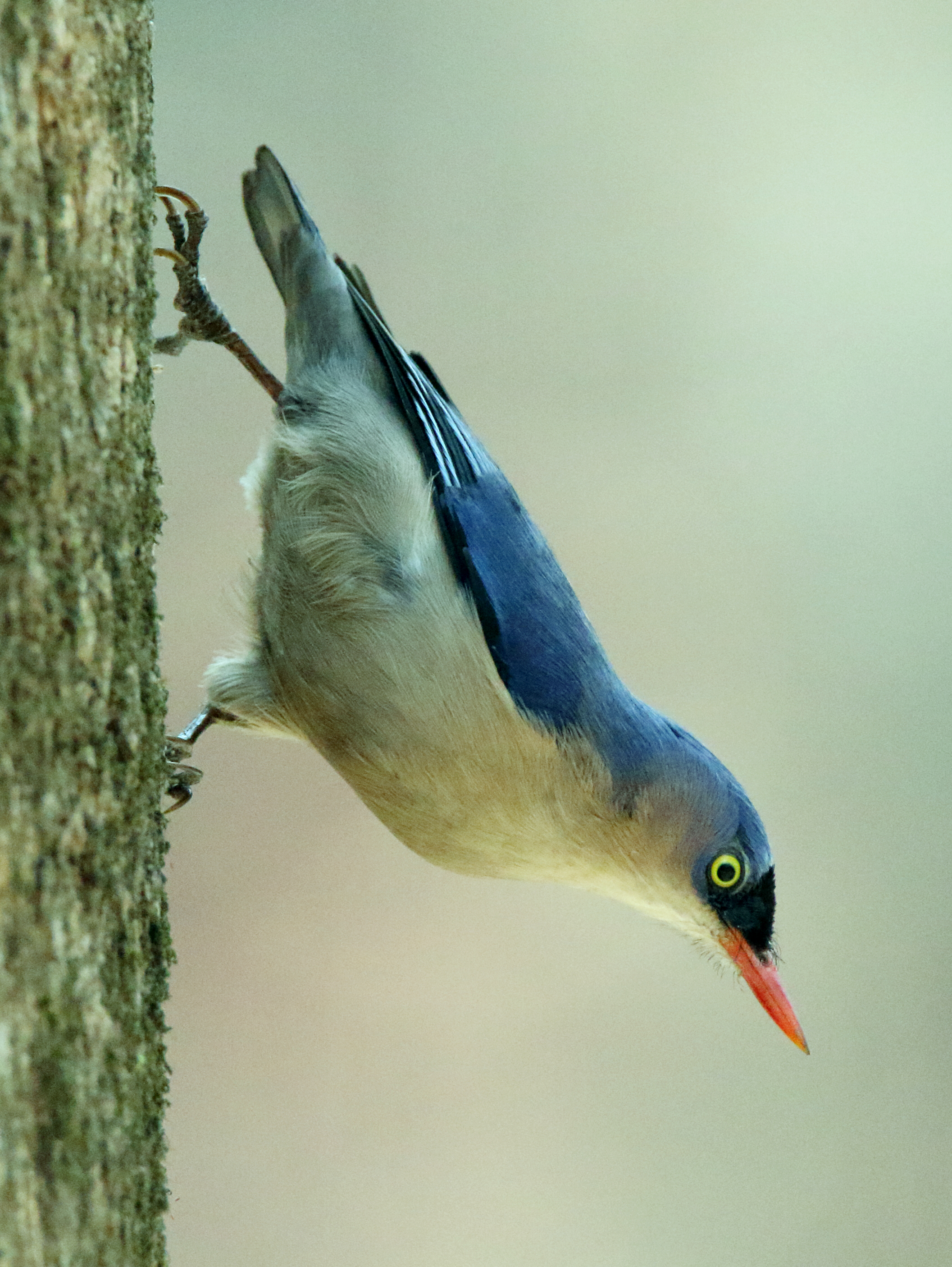 Velvet-fronted Nuthatch, Sitta frontalis Ganeshgudi, Karnataka, India 26 FEB 2016 Velvet-fronted Nuthatch climbing down the tree headfirst.